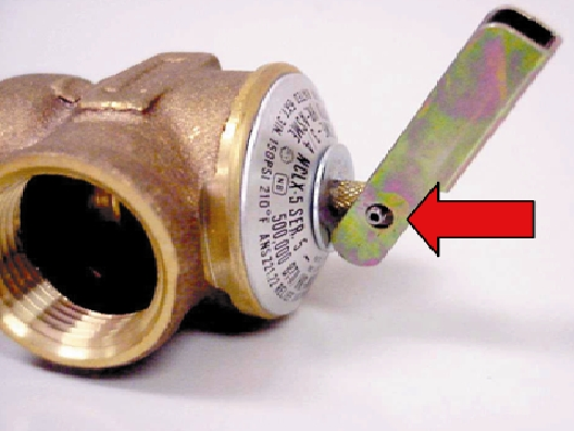 coiled spring pin secures the lift lever relative to the brass pull rod.